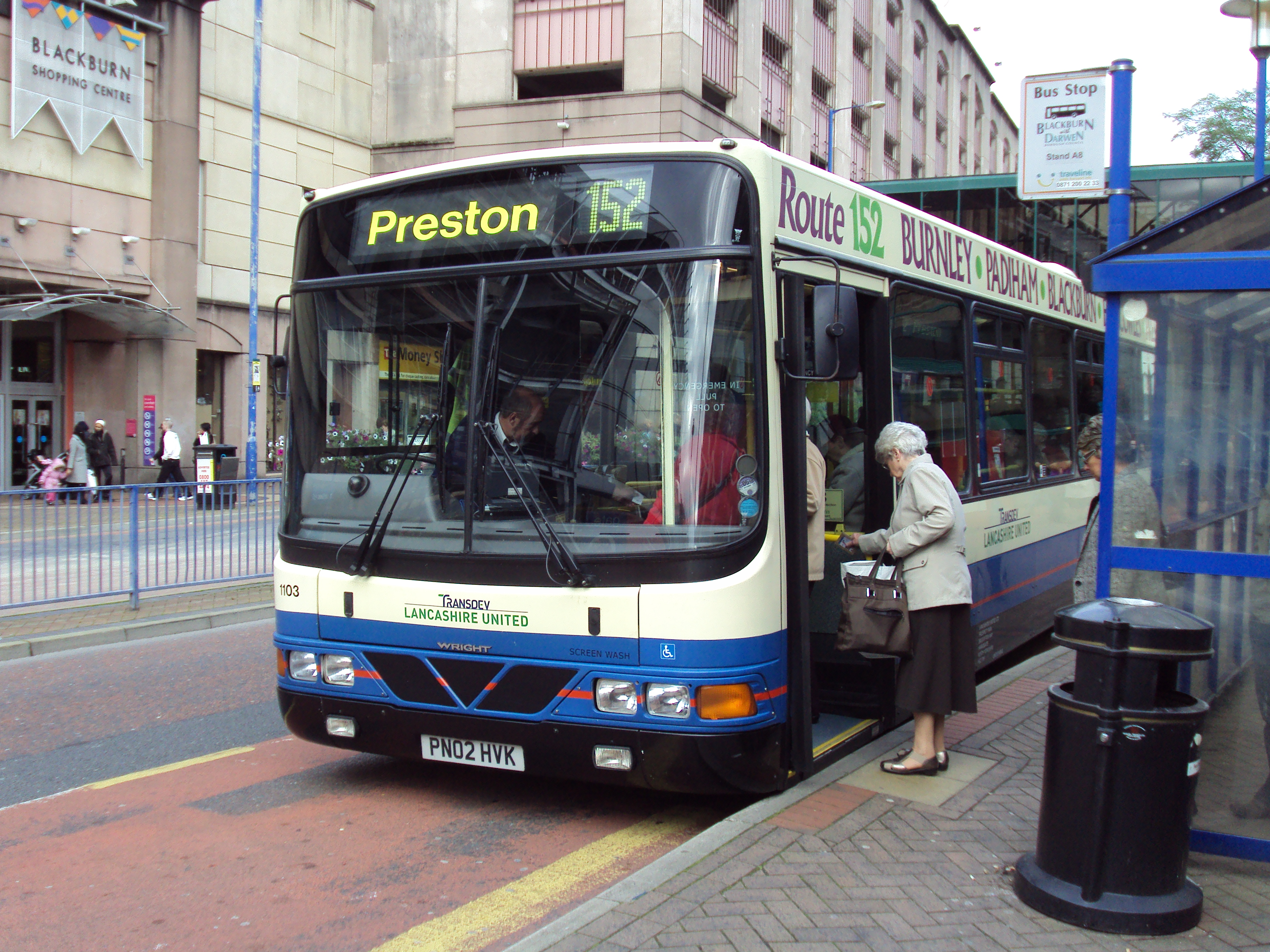 Transdev Lancashire United 1103 (PN02 HVK), a Volvo B10BLE with Wright Renown body, on route 152 from Burnley to Preston, taking on passengers at Ainsworth Street, Blackburn, Lancashire, England